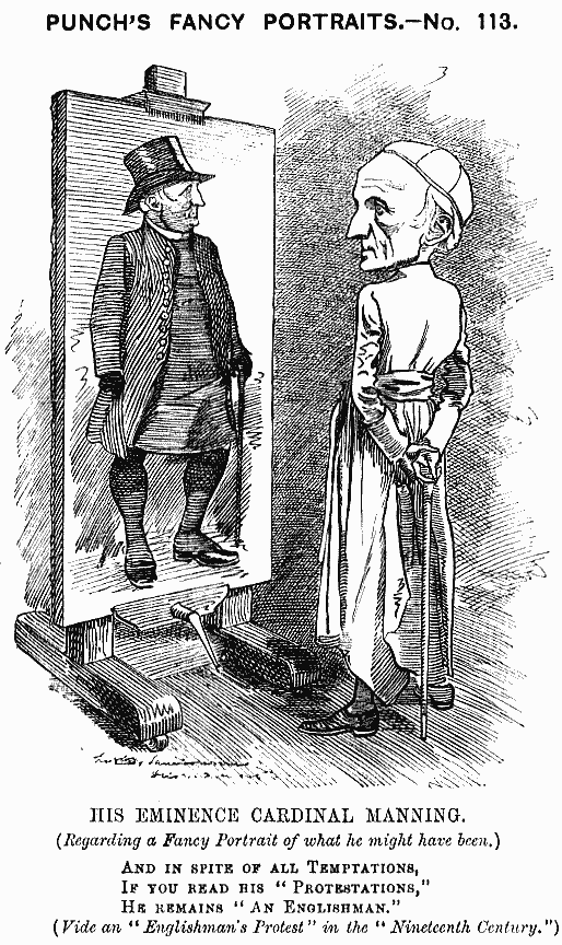 1882 caricature of Cardinal Manning. Scanned from Punch, December 9, 1882, page 266. Artwork by Edward Linley Sambourne